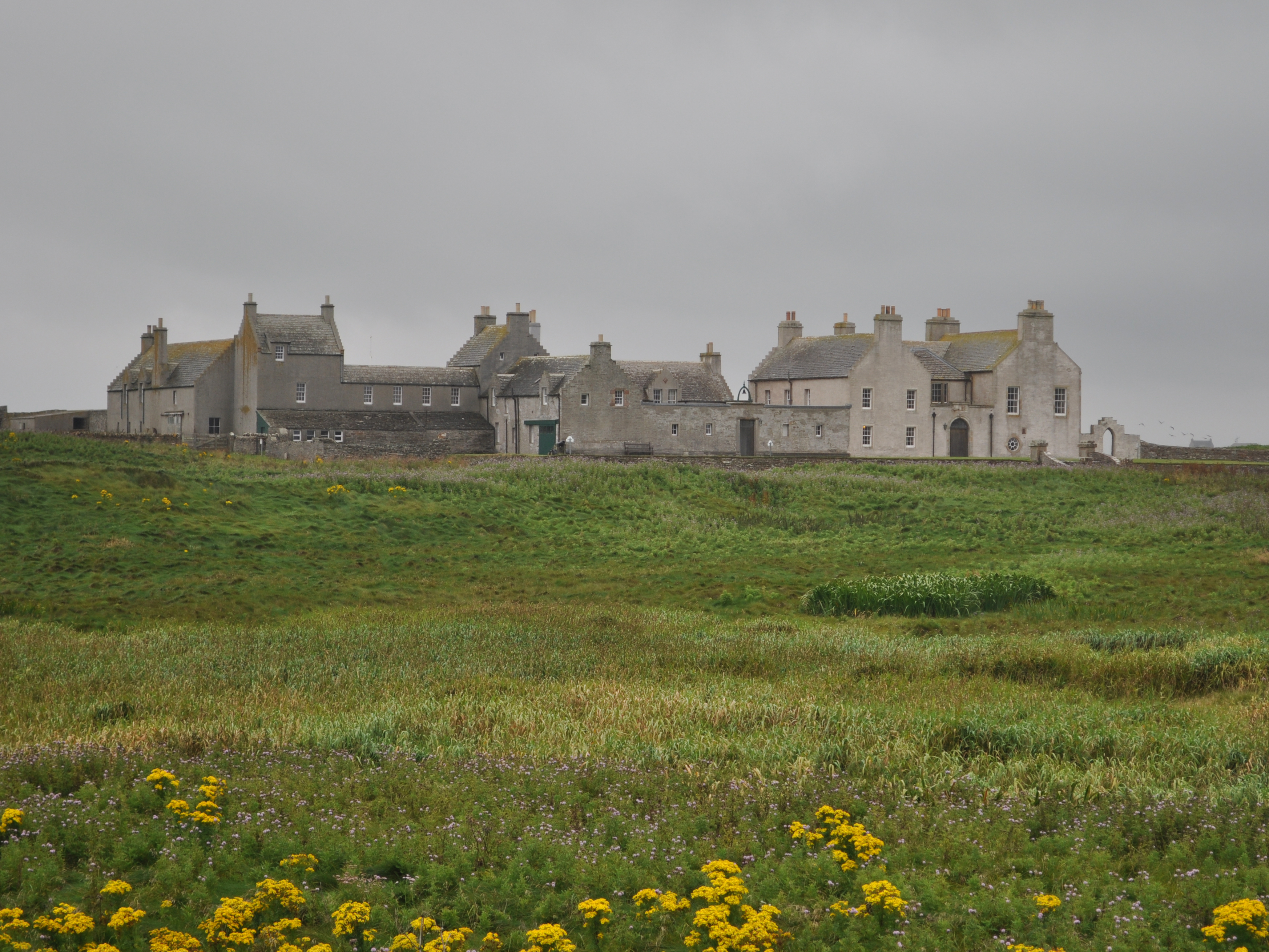 Skaill House Wikidata has entry Q17569509 with data related to this item.